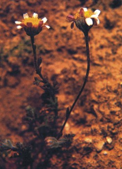 According to IUCN/SSC specialists this is one of the most endangered species of island floras in the Mediterranean area.